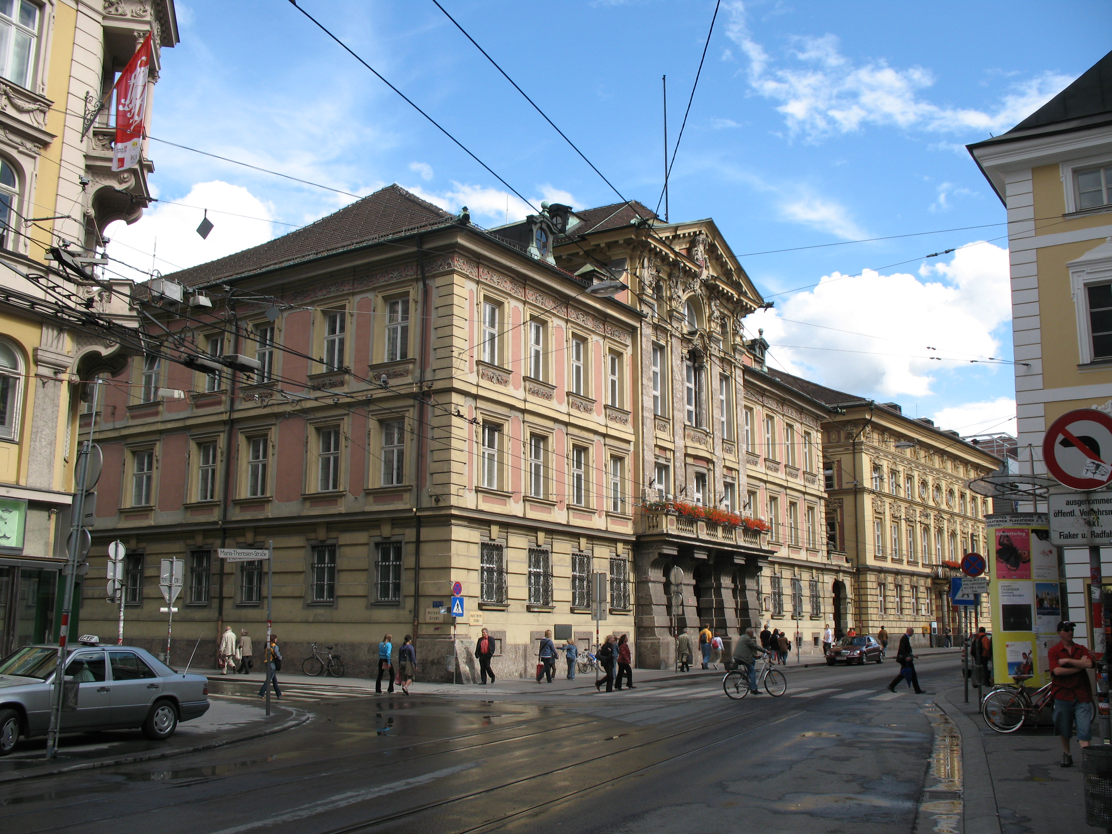 Old Villa, Innsbruck, Austria